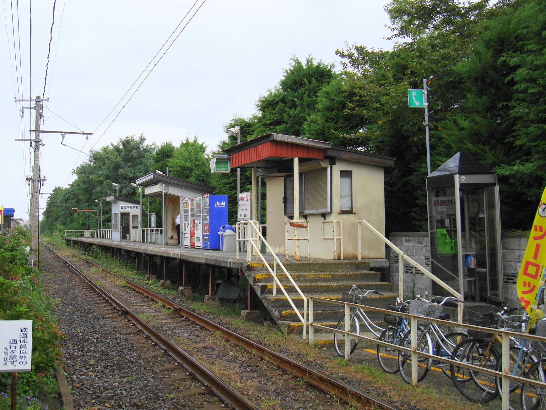 Seiai Chūkō-mae Station